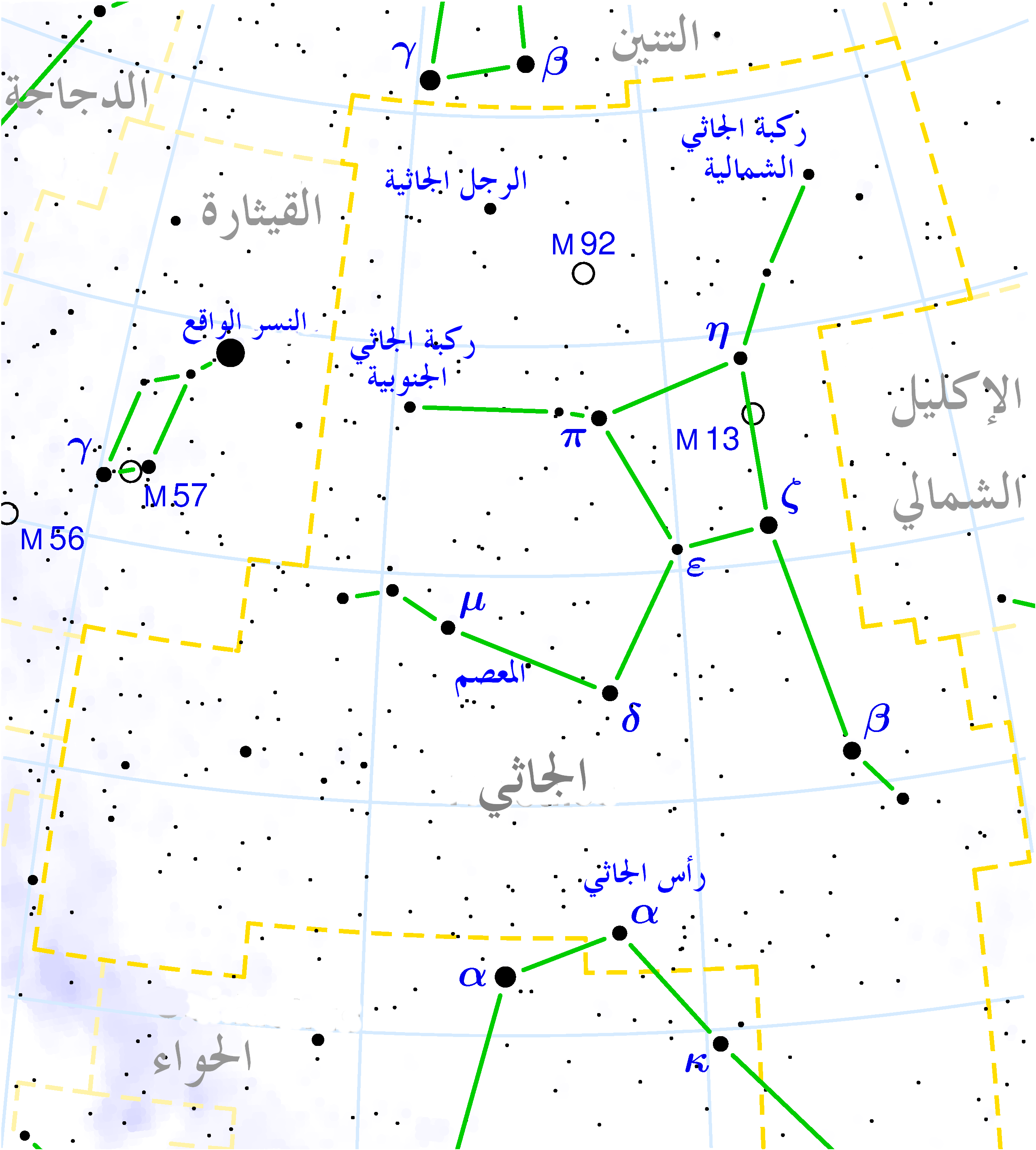 Hercules constellation map in Arabic